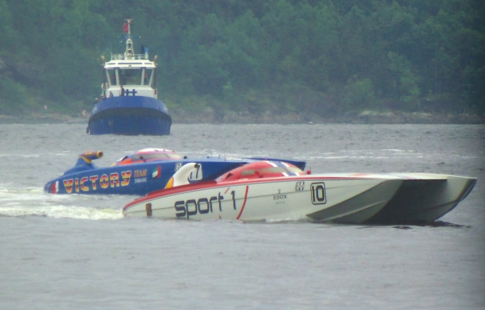 See above